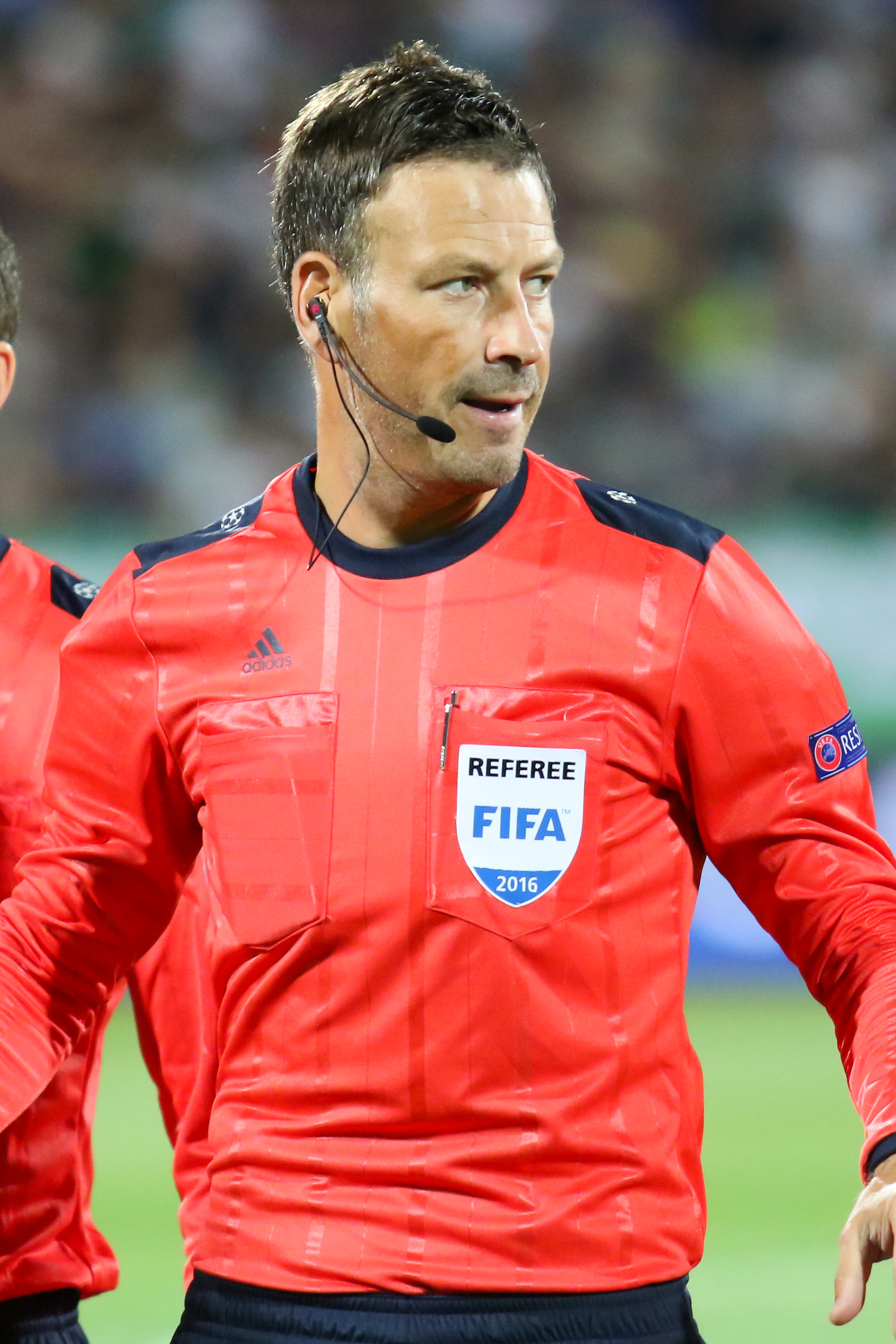 Mark Clattenburg (born 13 March 1975)[1] is an English professional football referee, who officiates primarily in the Premier League, and for FIFA. He was born in Consett, County Durham, but is now based in Gosforth, Newcastle upon Tyne. He is a member of the Durham County Football Association.